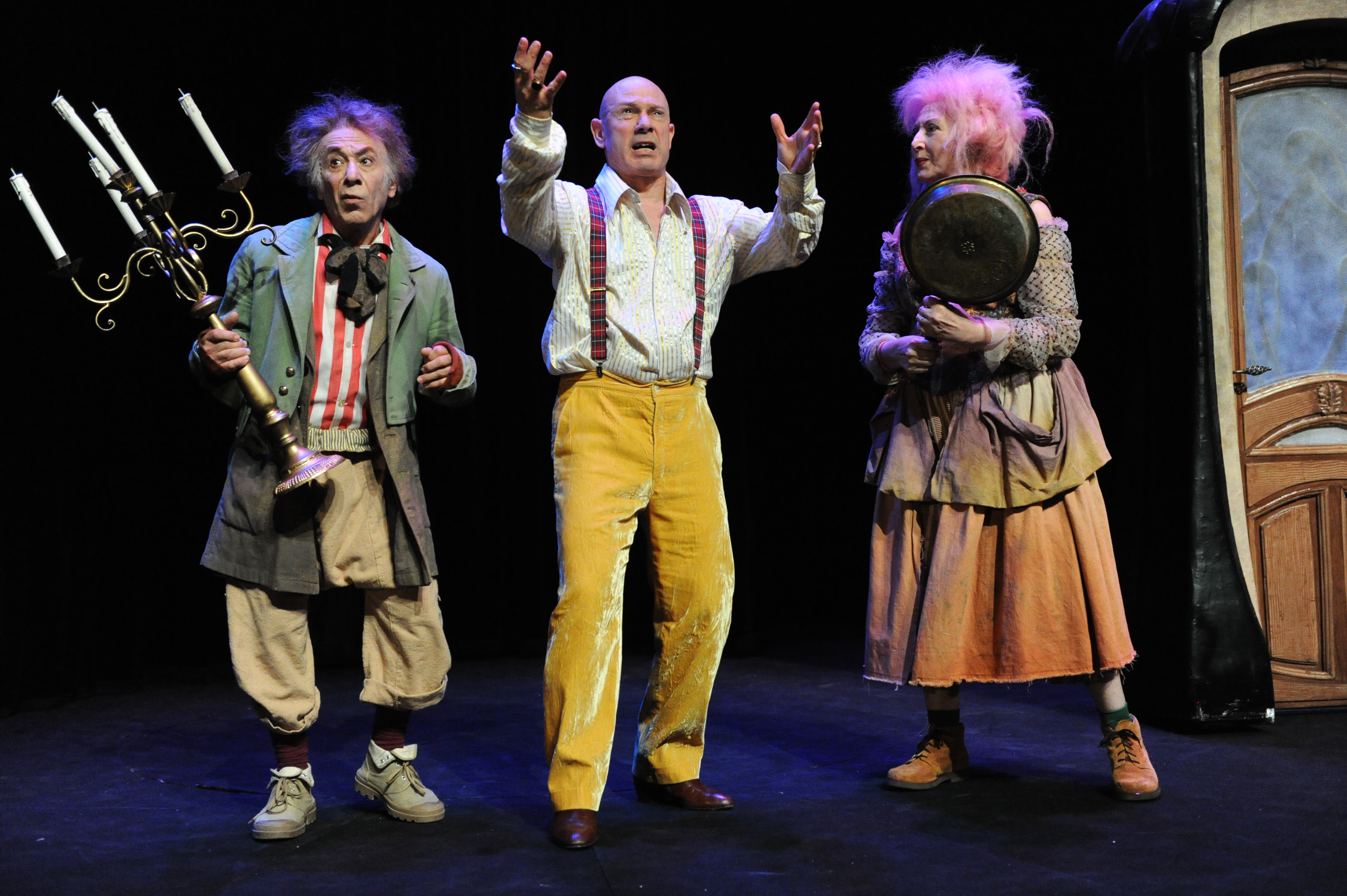 "The School for Wives" by Moliere in the Cameri Theater featuring Rami Barukh, Rosina Kambus and Ezra Dagan. Director: Udi Ben-Moshe.